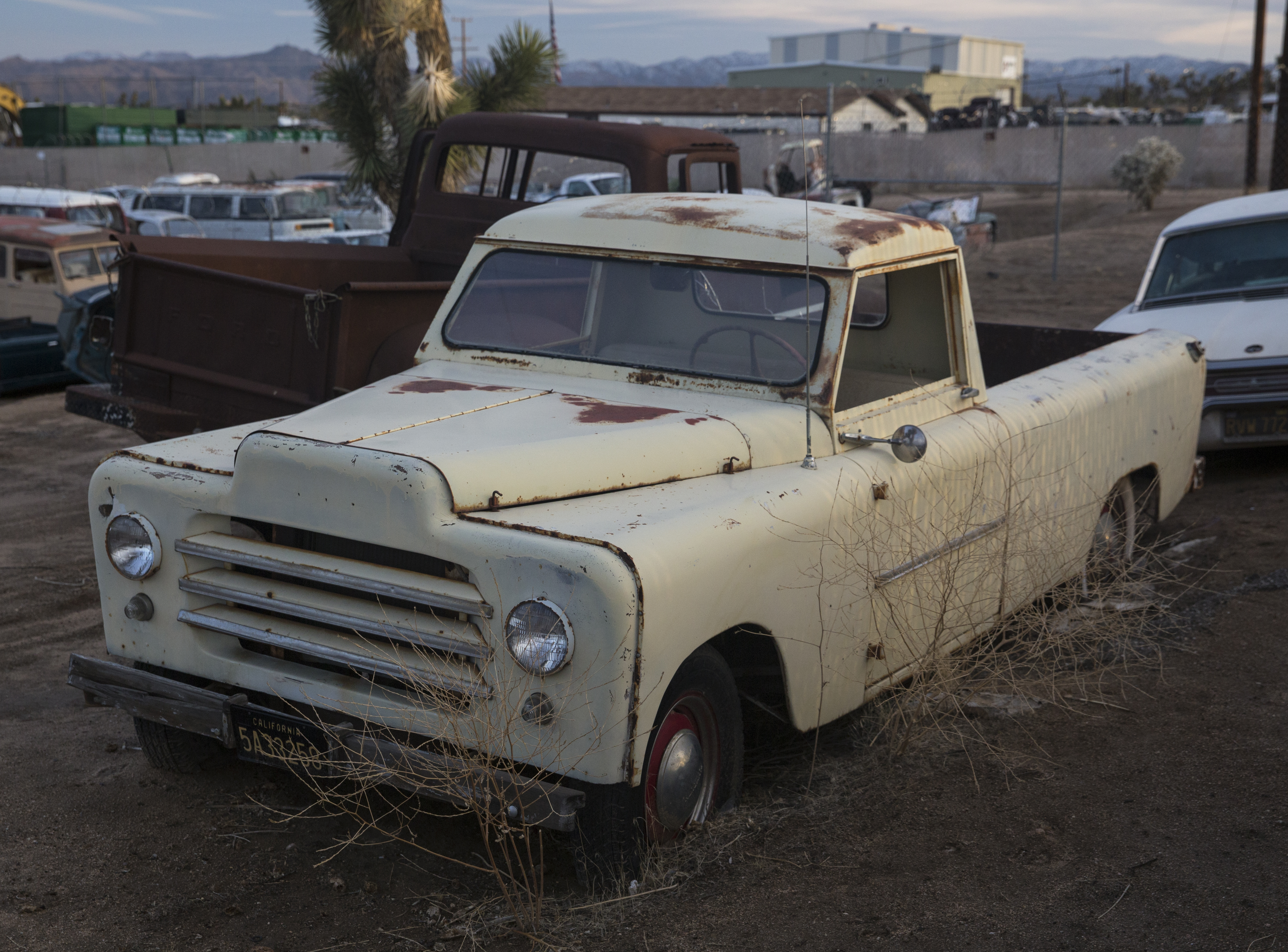 A Powell Sport Wagon pickup truck at a Yucca Valley, CA, junkyard.